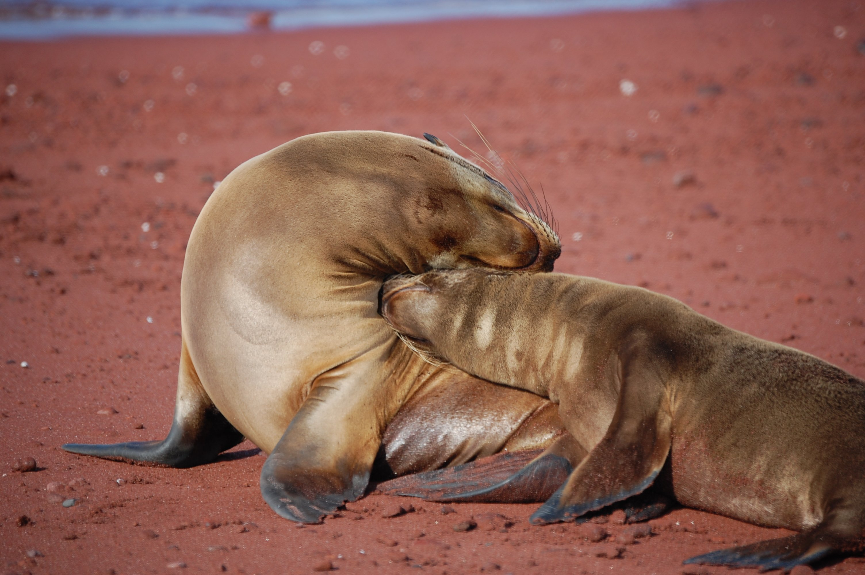 Mother sea lion and pup love - a remarkable display of affection. Galapagos Islands.